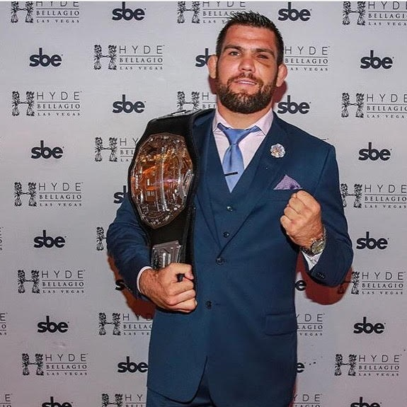 Legacy Light Heavyweight Championship